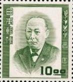 Japanese 10-yen poststamp. Nishi Amane of Bunka-jin (men of culture) series. (issued on 31st Feb., 1952)